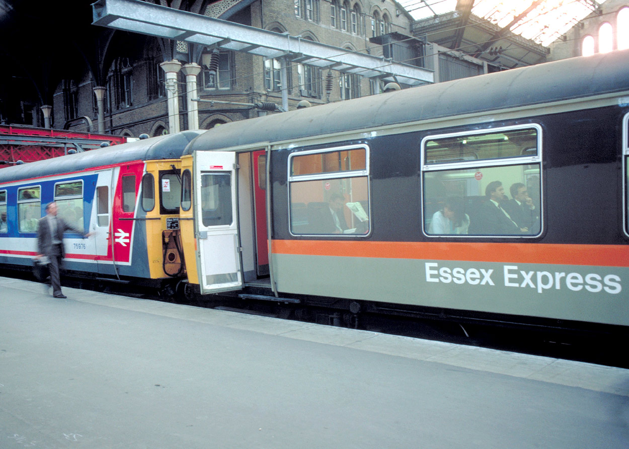 Two class 309 electric multiple units coupled together at London Liverpool Street Station. One of these is in Network SouthEast livery and the other is in Jaffa Cake livery, with a special "Essex Express" branding, reflecting the County which these very much liked and lamented trains mostly served.